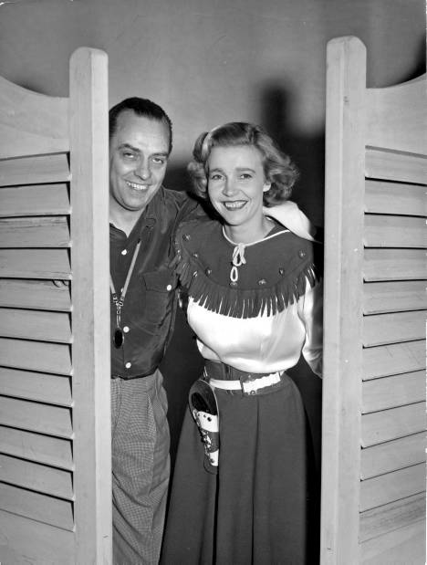 Alice Babs and the director Gösta Bernhard during the filming of the movie Drömsemester 1952.